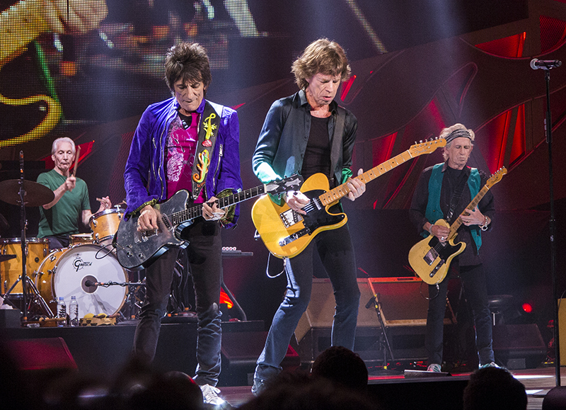 The Rolling Stones onstage at Summerfest 2015